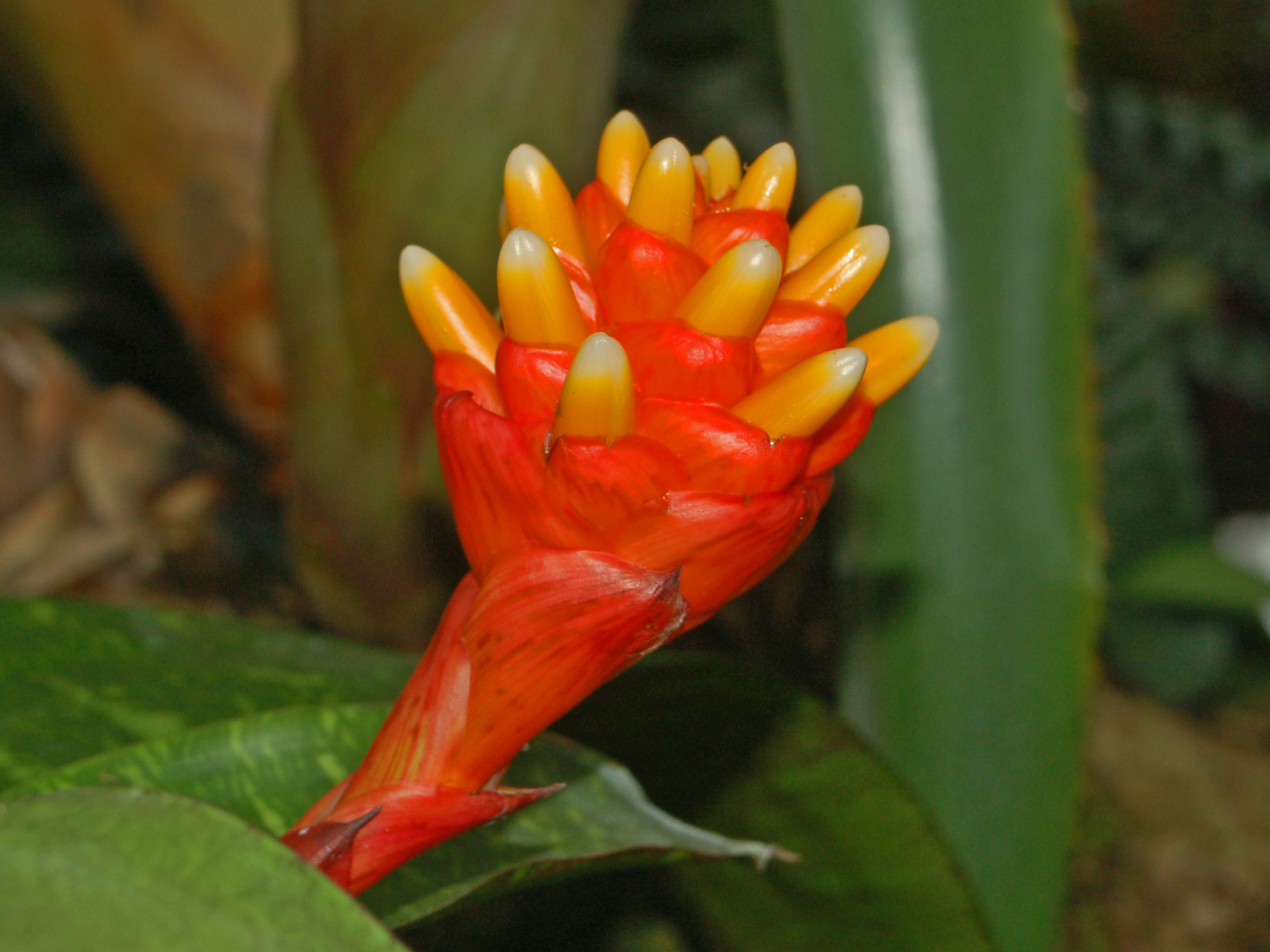 Inflorescence of Guzmania musaica at Jardin Botanic of Montreal, Canada